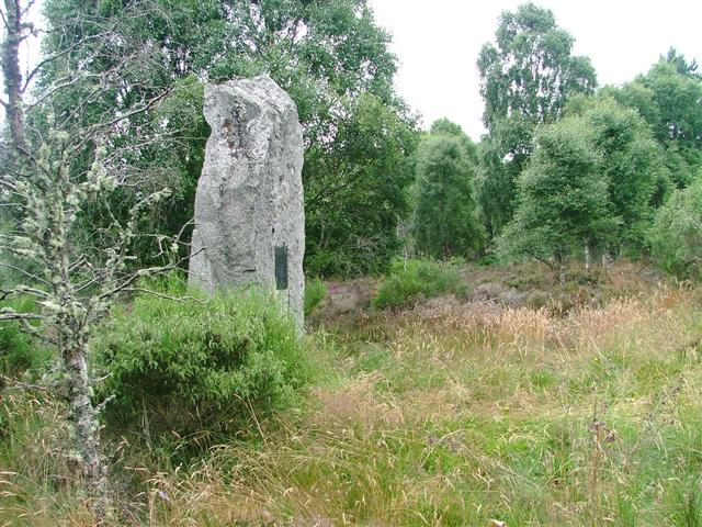 Memorial to the Battle of Culblean. "Erected by the Deesside Field Club in 1956 to commemorate the Battle of Culblean fought on St. Andrew's day, 30 November 1335 between the forces of Sir Andrew de Moray, Warden of Scotland, and David, Earl of Atholl, in which the former was victorious. The battle marked the turning point of the second Scottish War of Independence."